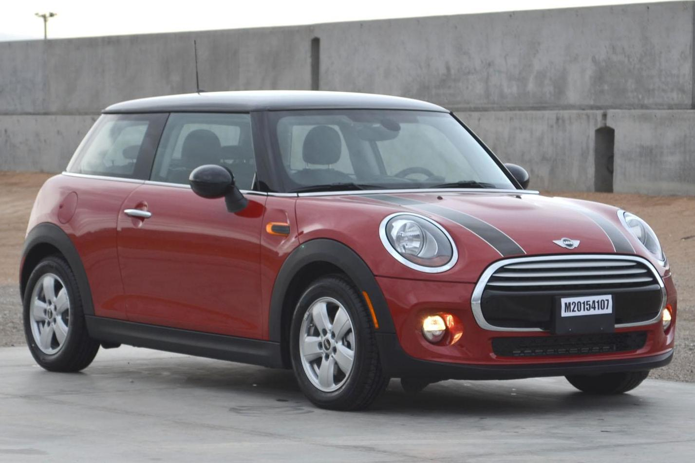 2015 MINI Cooper Hardtop 2 door, photographed in USA.